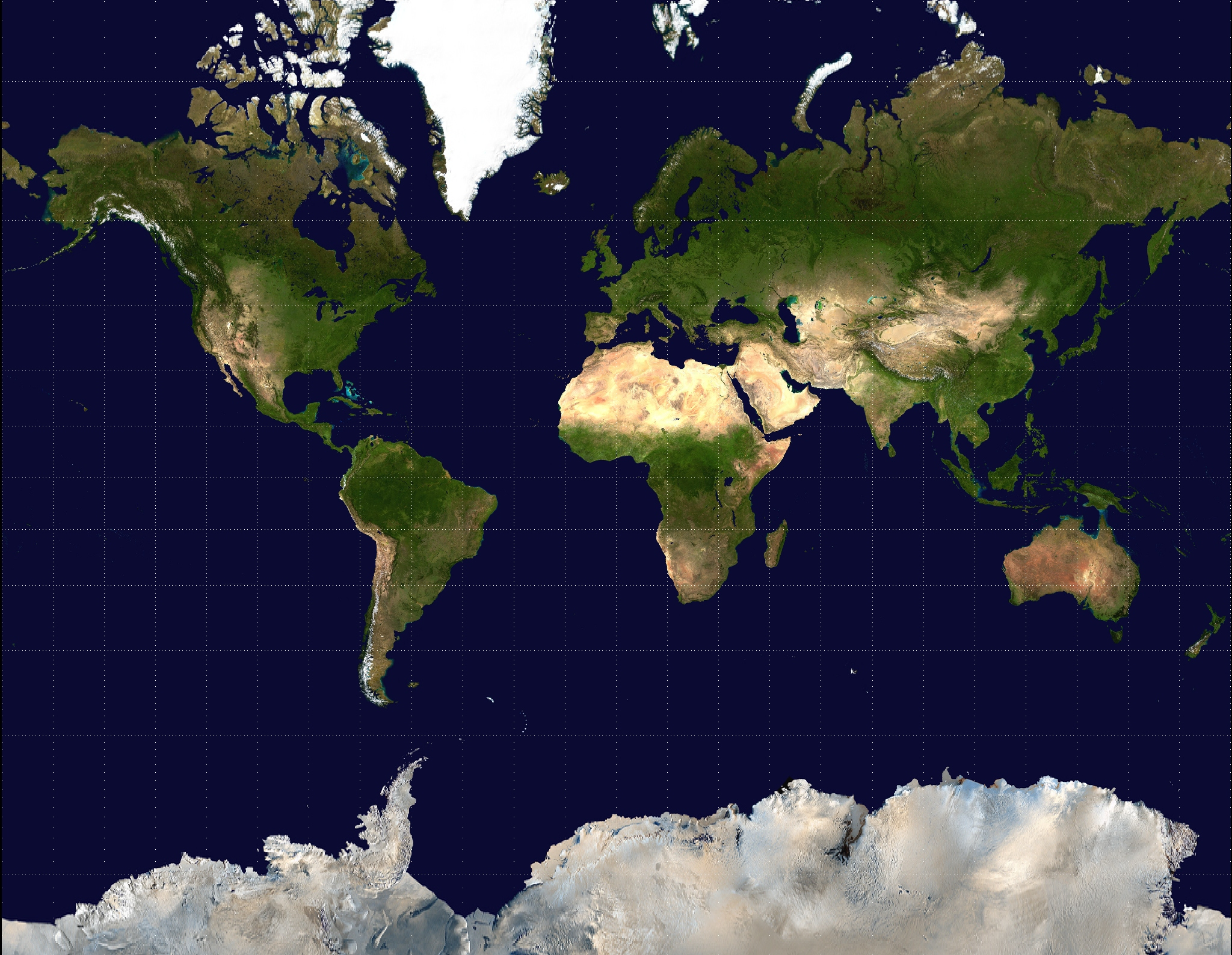 Mercator projection of the Earth. Source image is from NASA's Earth Observatory "Blue Marble" series.